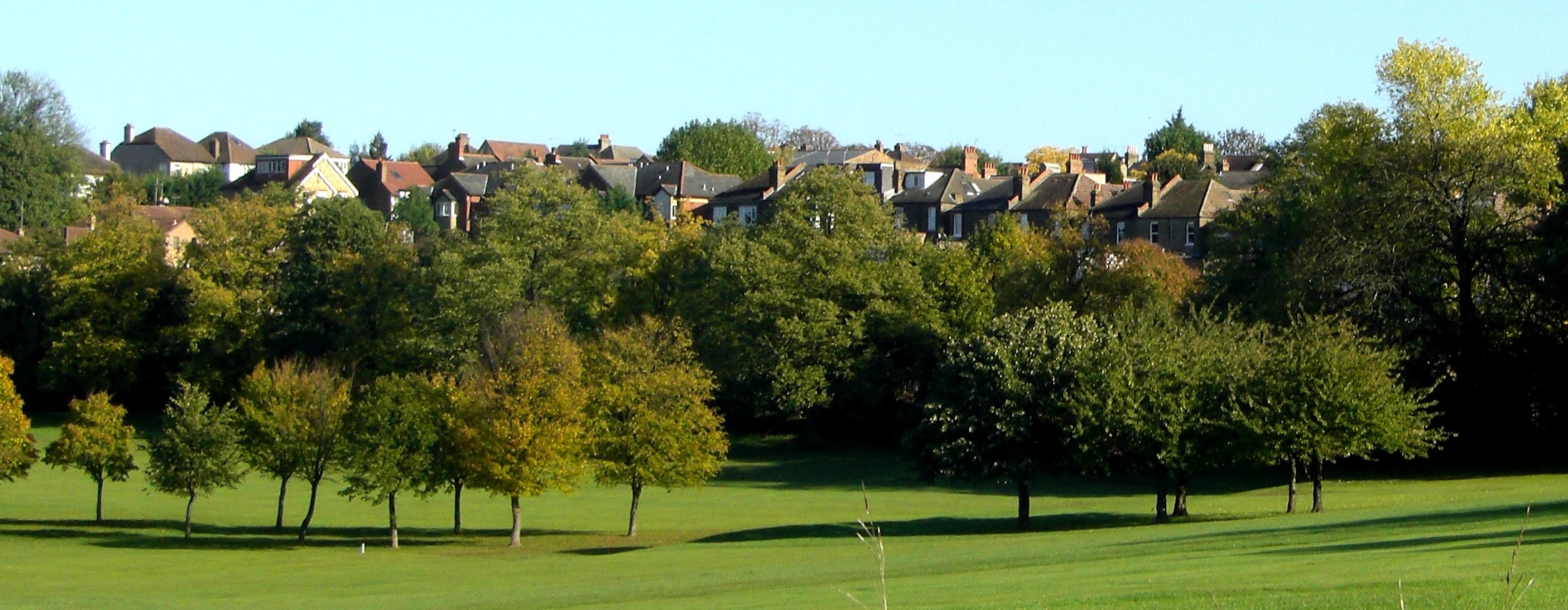 Grove Avenue, Hanwell viewed from Brent Valley Golf Course